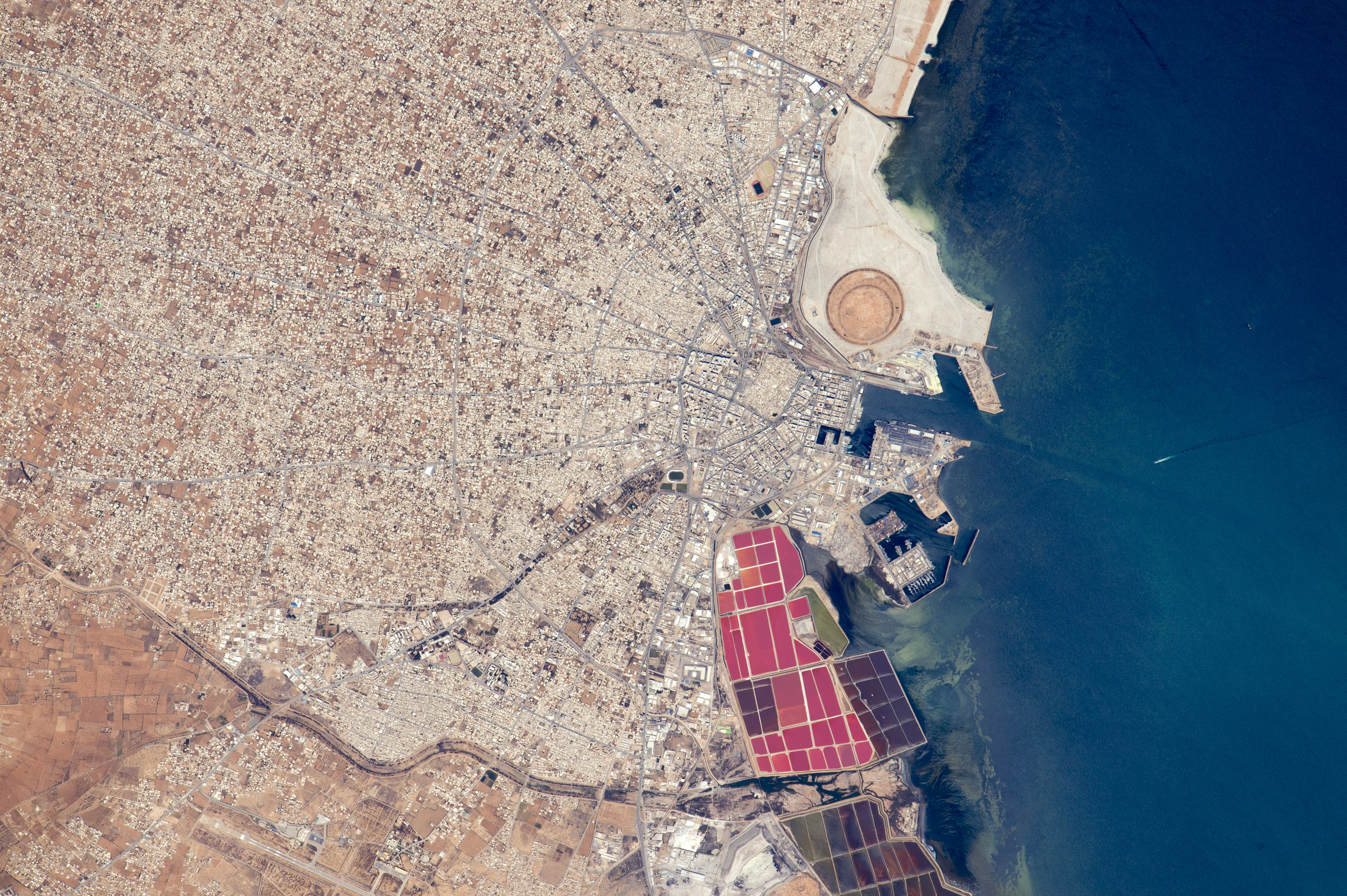 The radiating street pattern of Tunisia’s second city and major port of Sfax (population ~900,000), that also hosts Tunisia’s largest fishing fleet (for scale the fishing port is 1.1 km long)... More detailed visual cues that tell astronauts they are overflying Sfax are the brilliantly colored salt ponds south of the old city and the new circular earth works of the Taparura redevelopment project just north of the old city. Named after the town in antiquity on which Sfax now stands, the redevelopment has reclaimed many hectares along 5 km of shoreline (extending outside the image) and reengineered a polluted and marshy area on the coastal side of the long curve of the city’s railroad tracks...